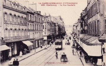 Cherbourg Tram in Rue Gambetta in 1915